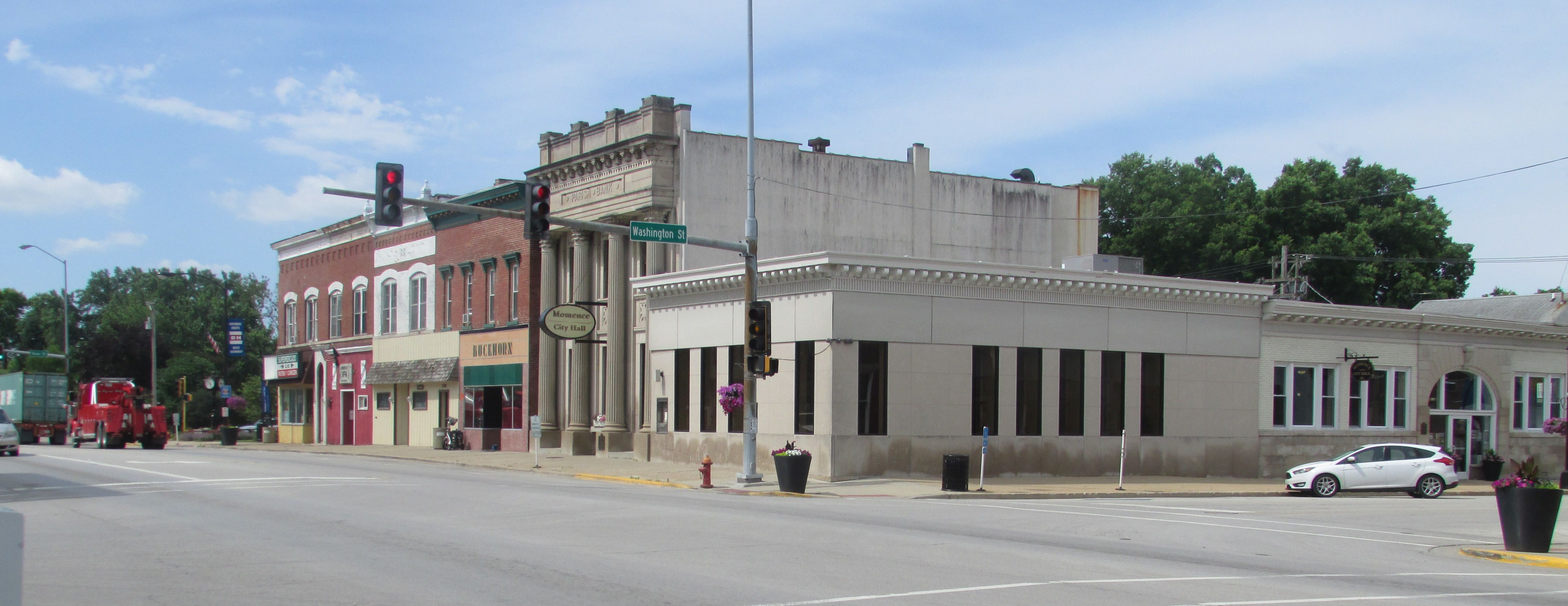 City Hall, Dixie Highway and Washington Street, Momence, Illinois.